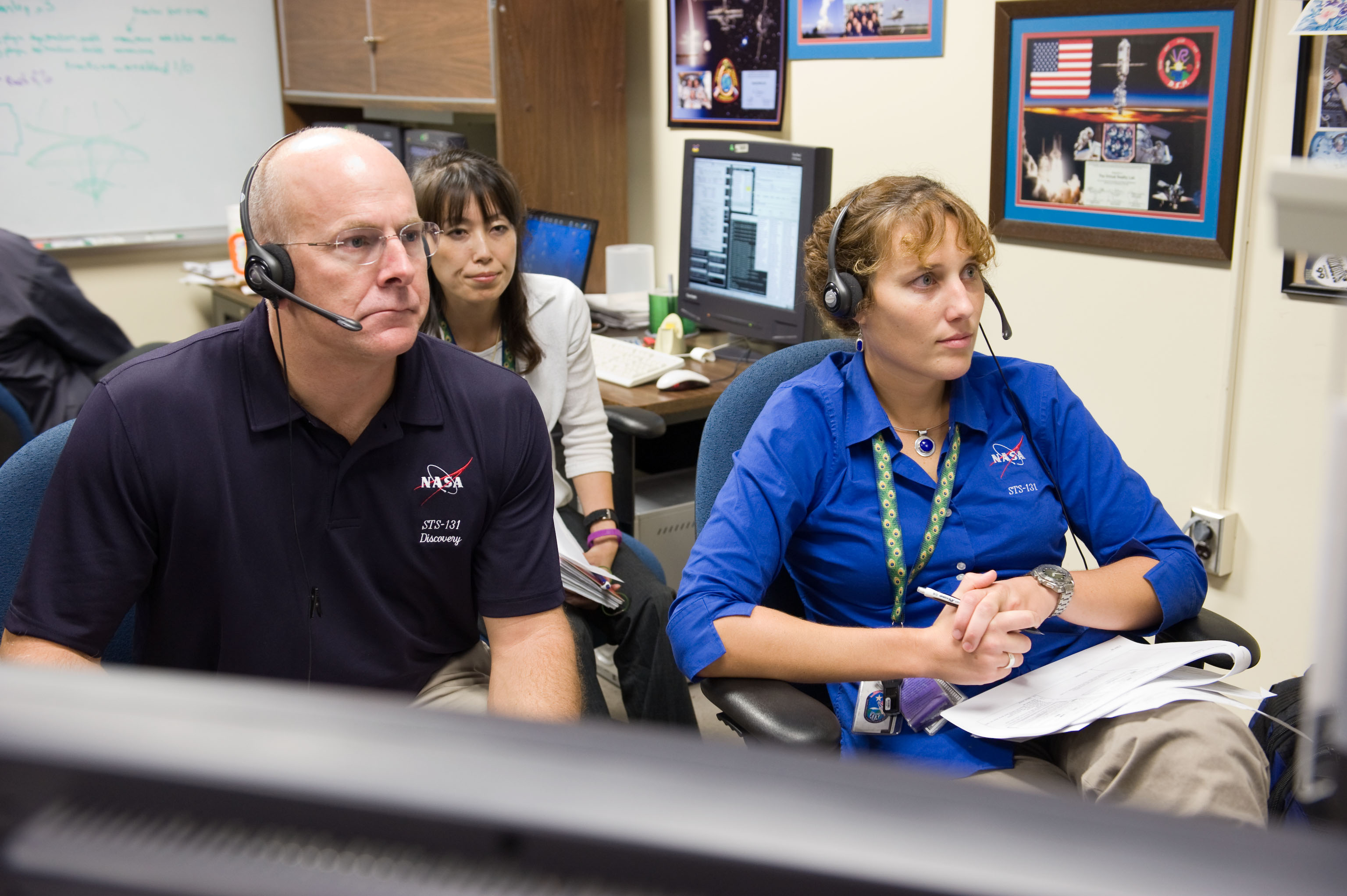 NASA astronauts Alan Poindexter, STS-131 commander; and Dorothy Metcalf-Lindenburger, mission specialist; along with Japan Aerospace Exploration Agency (JAXA) astronaut Naoko Yamazaki (background), mission specialist, use the virtual reality lab in the Space Vehicle Mock-up Facility at NASA's Johnson Space Center to train for some of their duties aboard the space shuttle and space station. This type of computer interface, paired with virtual reality training hardware and software, helps to prepare the entire team for dealing with space station elements.